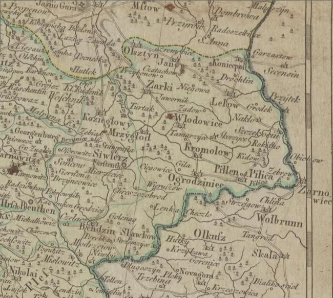 New Silesia on a map from 1799